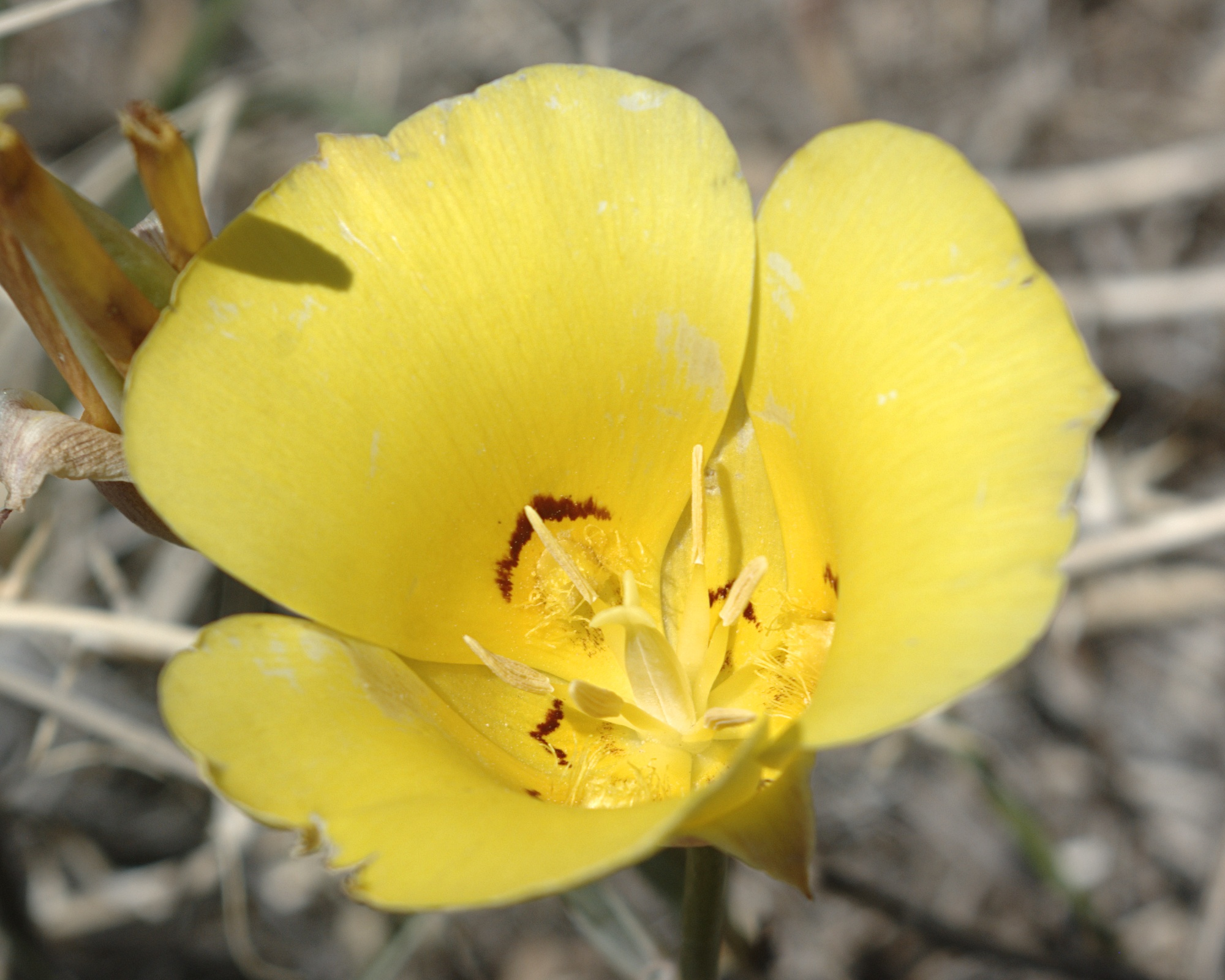 Flower of Golden Mariposa Lily, Calochortus aureus (formerly Calochortus nutallii var. aureus), very close to the Crystal Forest site, Petrified Forest National Park, Arizona